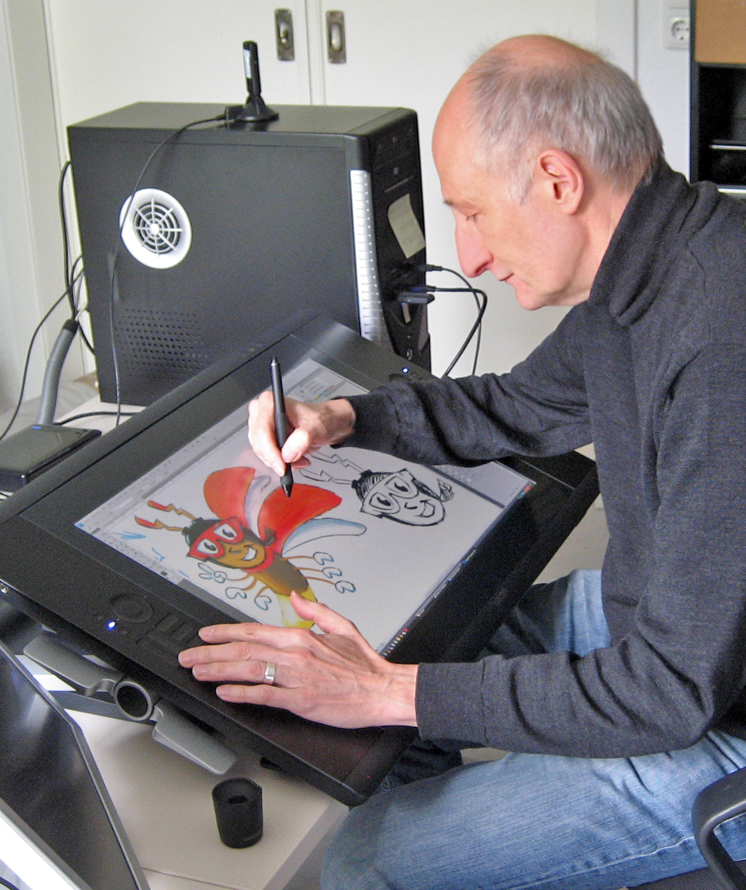 Illustrator & Cartoonist Peter Krisp at workDeitsch: Illustrator Peter Krisp bei der Arbeit